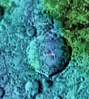 Color-coded topography LAC 143 image from USGS Digital Atlas.